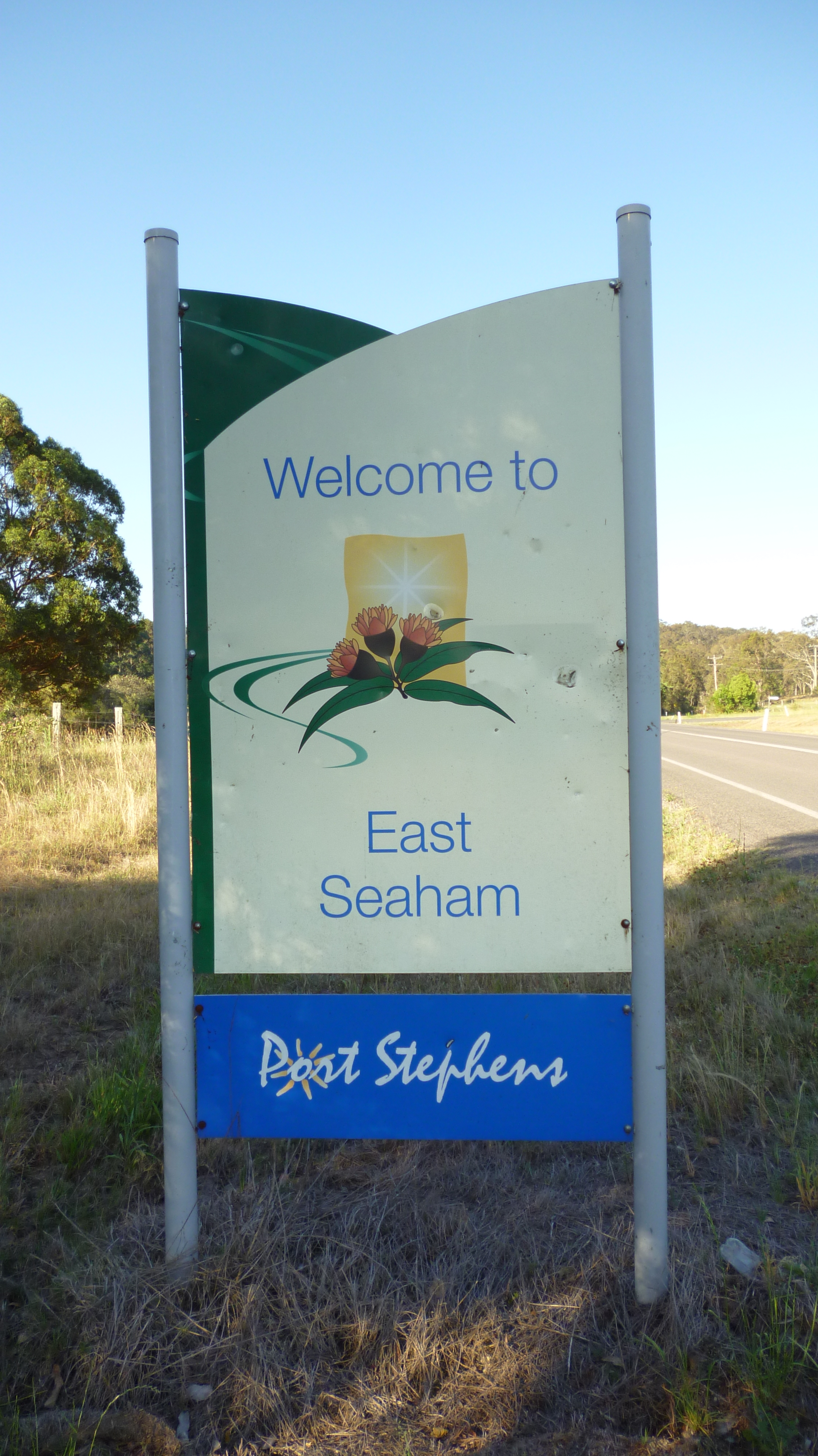 Welcome to East Seaham sign on East Seaham Road in New South Wales, Australia.